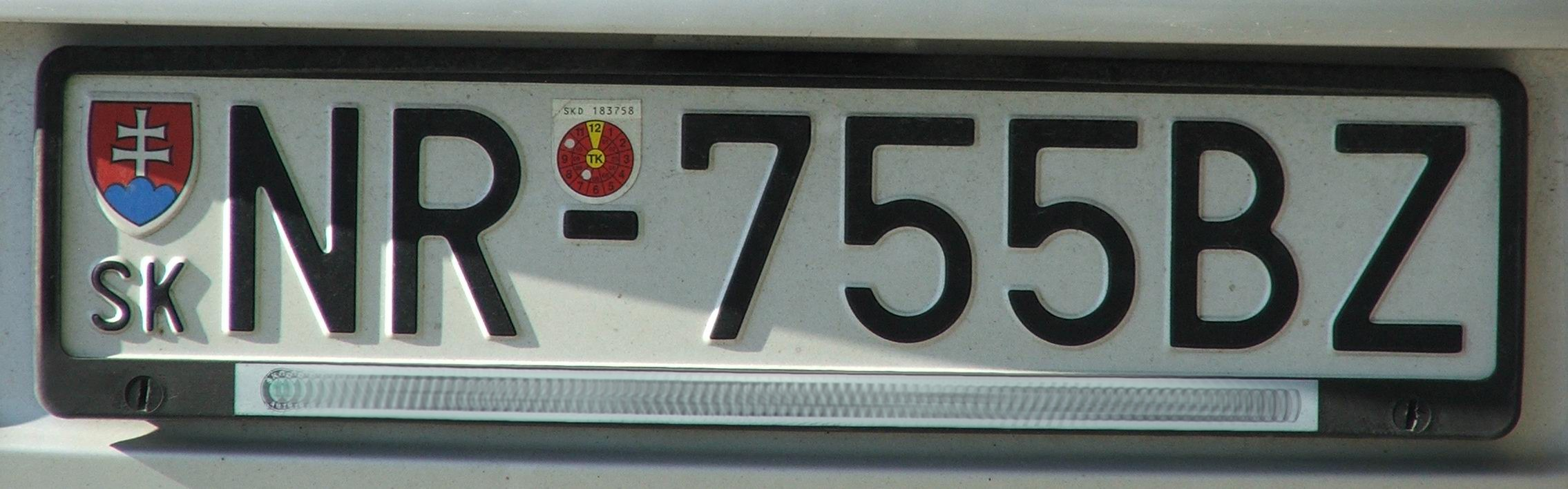 Slovak vehicle licence plate before entry to the EU - NR stands for Nitra